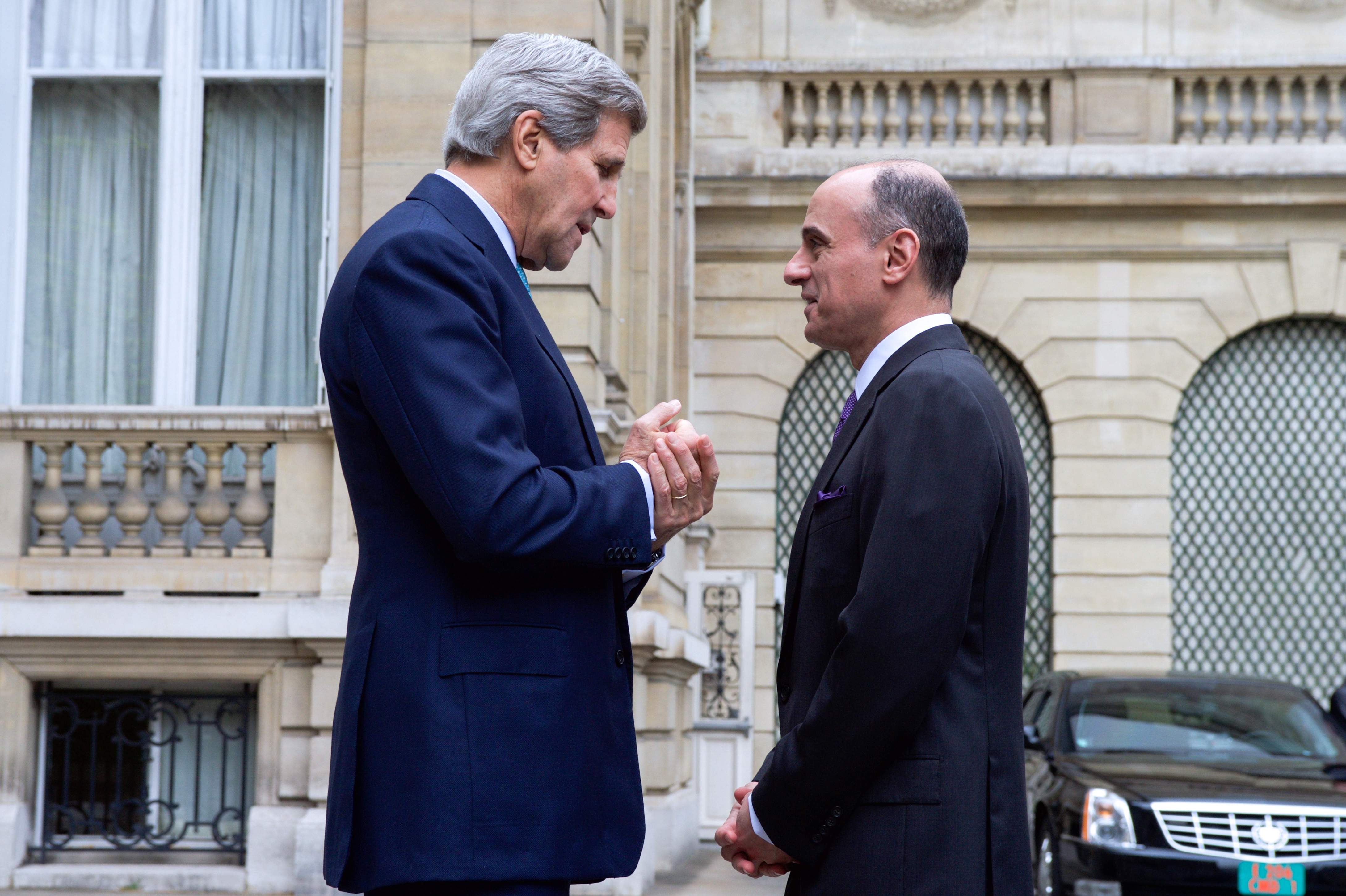 U.S. Secretary of State John Kerry greets Saudi Foreign Minister Adel al-Jubeir outside the U.S. Ambassador's Residence in Paris, France, as members of the Gulf Cooperation Council gathered for a multilateral meeting on May 8, 2015. [State Department photo/ Public Domain]